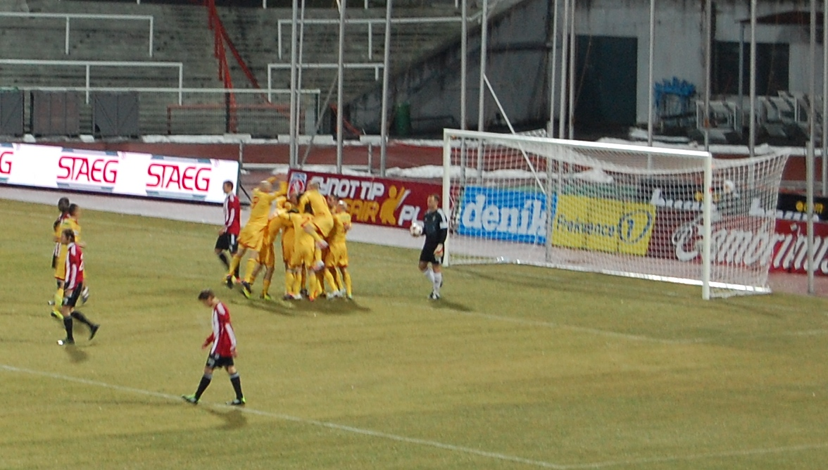 Dukla Prague players celebrate the first goal of 2012, scored after 3 minutes by Jan Pázler against FK Viktoria Žižkov.